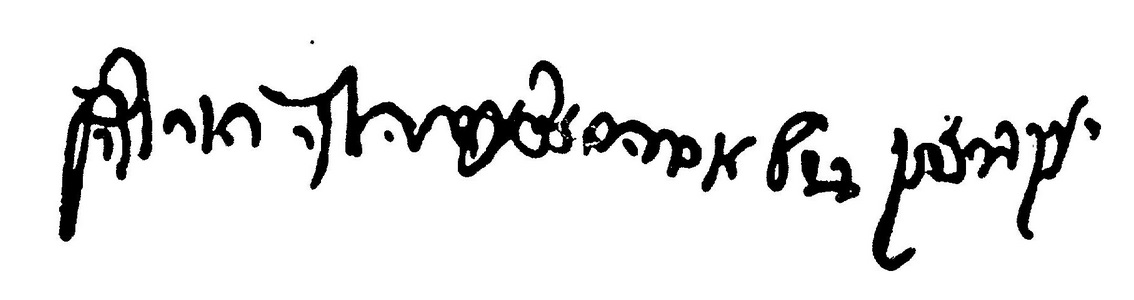 An autograph of Yaakov Yitzchak of Lublin, facsimile copy in Isaac Rephael's Fun di ḳṿaln funm ḥsidishn folḳlor (available online in the Internet Archive; public domain courtesy of the National Yiddish Boock Center). Original written down before his 1815 death.